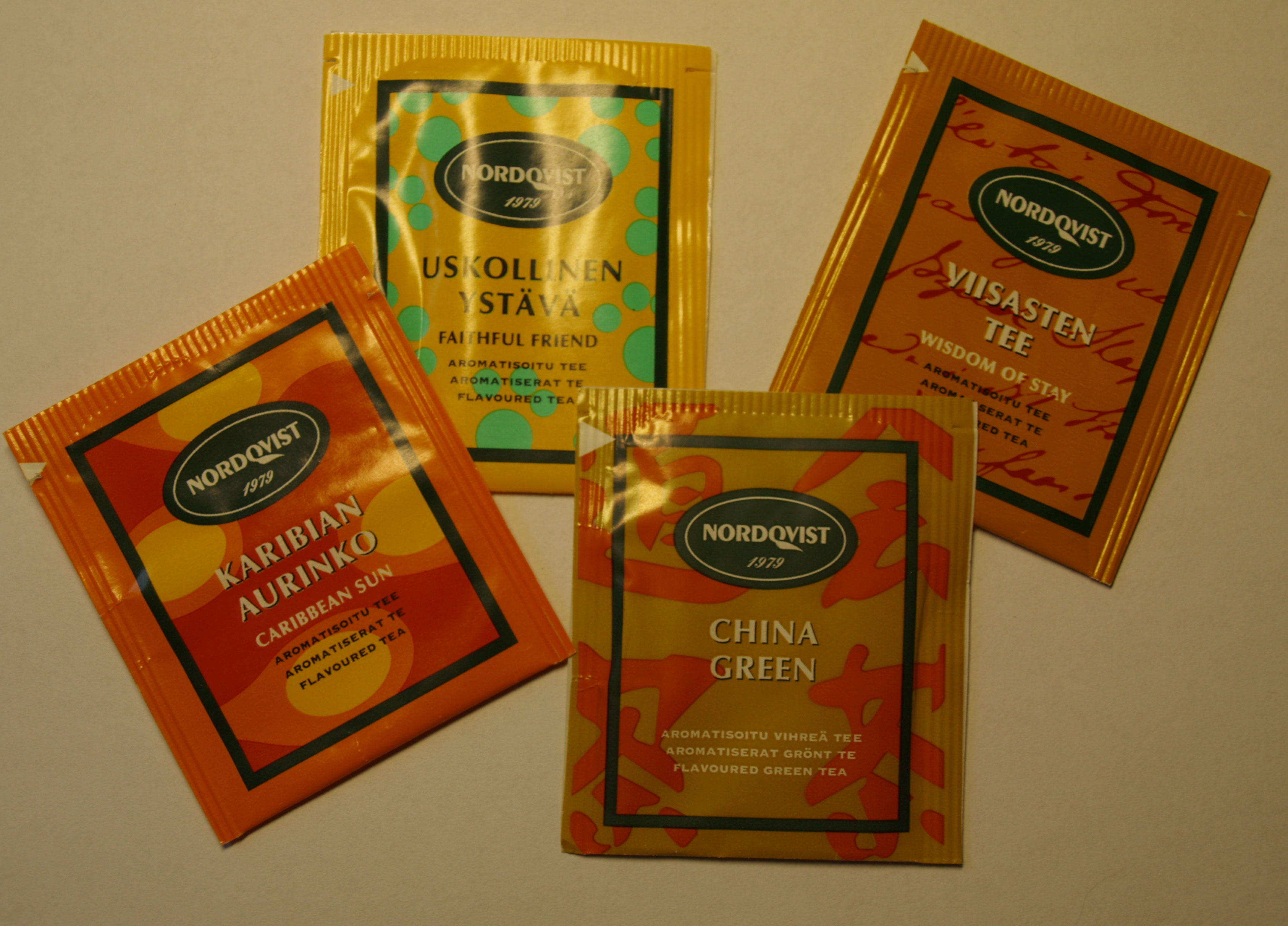 Small collection of Nordqvist teas.